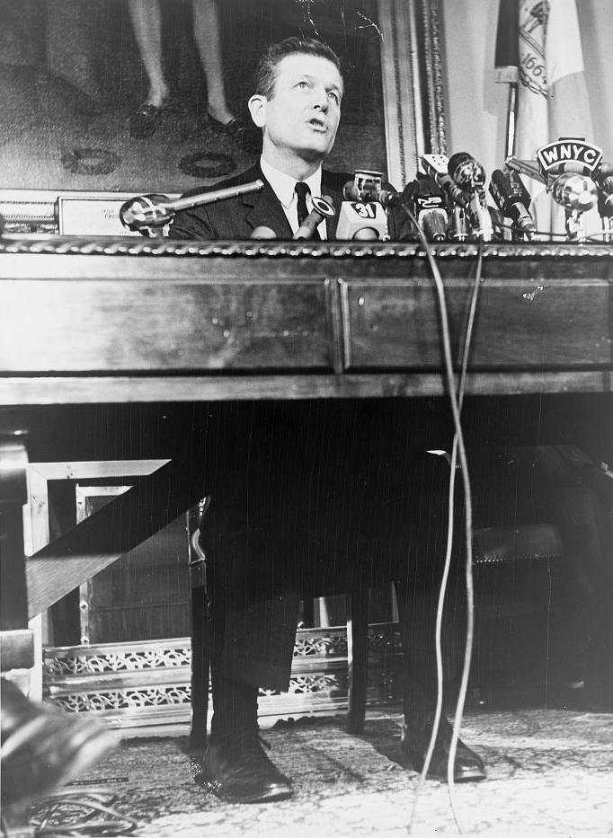 Mayor John Lindsay, full-length portrait, seated behind desk and microphones, facing front, speaking at New York City Hall / World Telegram & Sun photo by John Bottega.